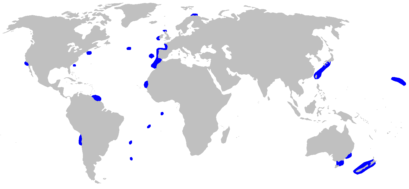 Distribution map for Chlamydoselachus anguineus